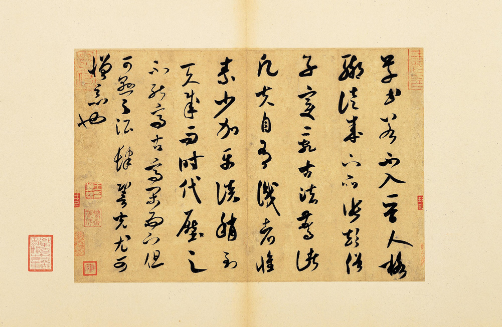 Mi Fu placed the cursive style of the Jin dynasty (265-420) in high regards as the standard, but he was critical about that of the Tang dynasty (618-907). This work is a written discourse about the cursive style, and is done in the cursive style fully similar to that of the Jin dynasty. The content includes hints of criticism for Tang calligraphers, such as the named Zhang Xu (張旭; appearing as 張顛, because of a taboo character due to Emperor Shenzong's name), Huaisu (懷素), Gaoxian (高閑), and Bianguang (辯光).